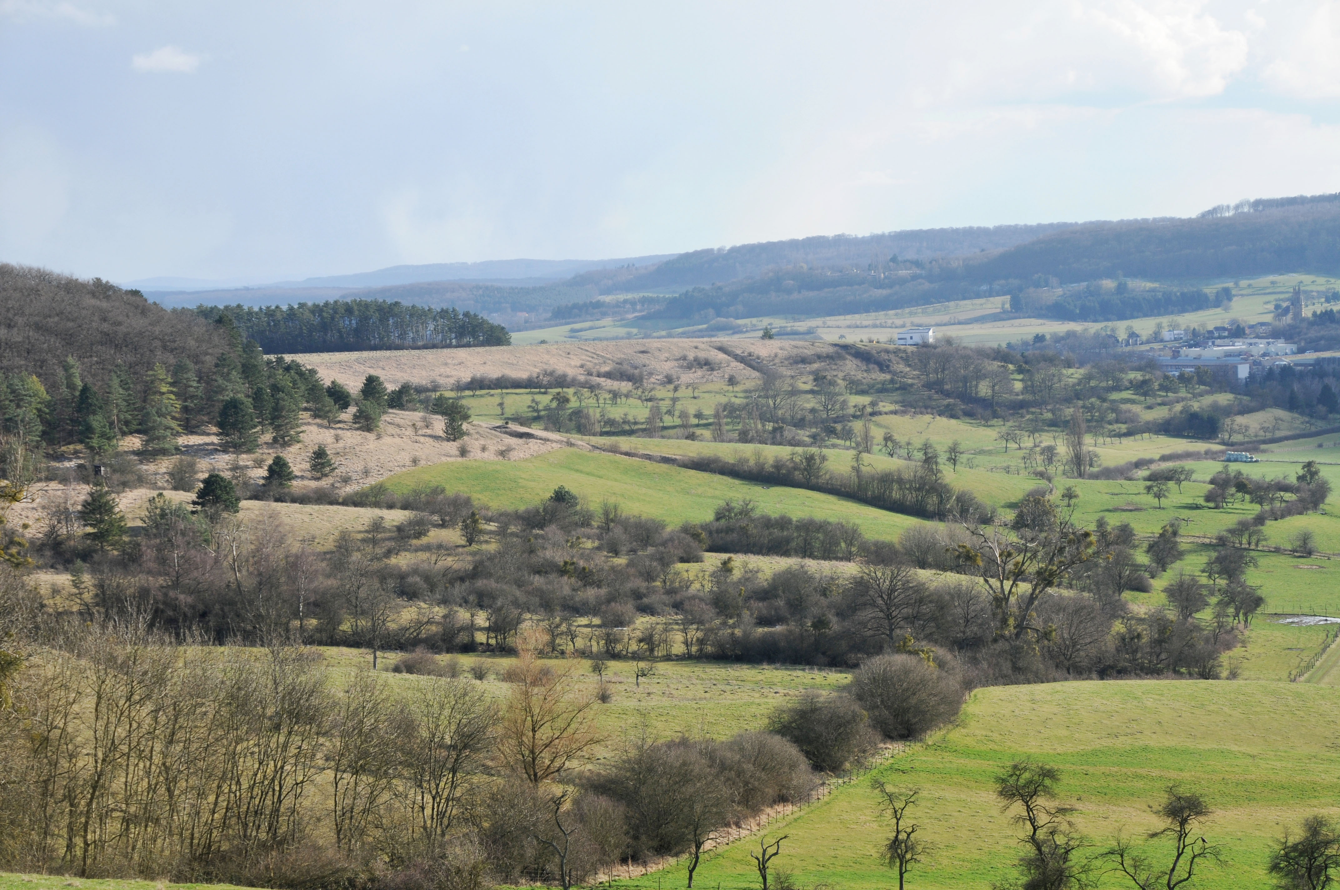 Luxembourg, Niederanven: Part of the nature reserve "Aarnescht".